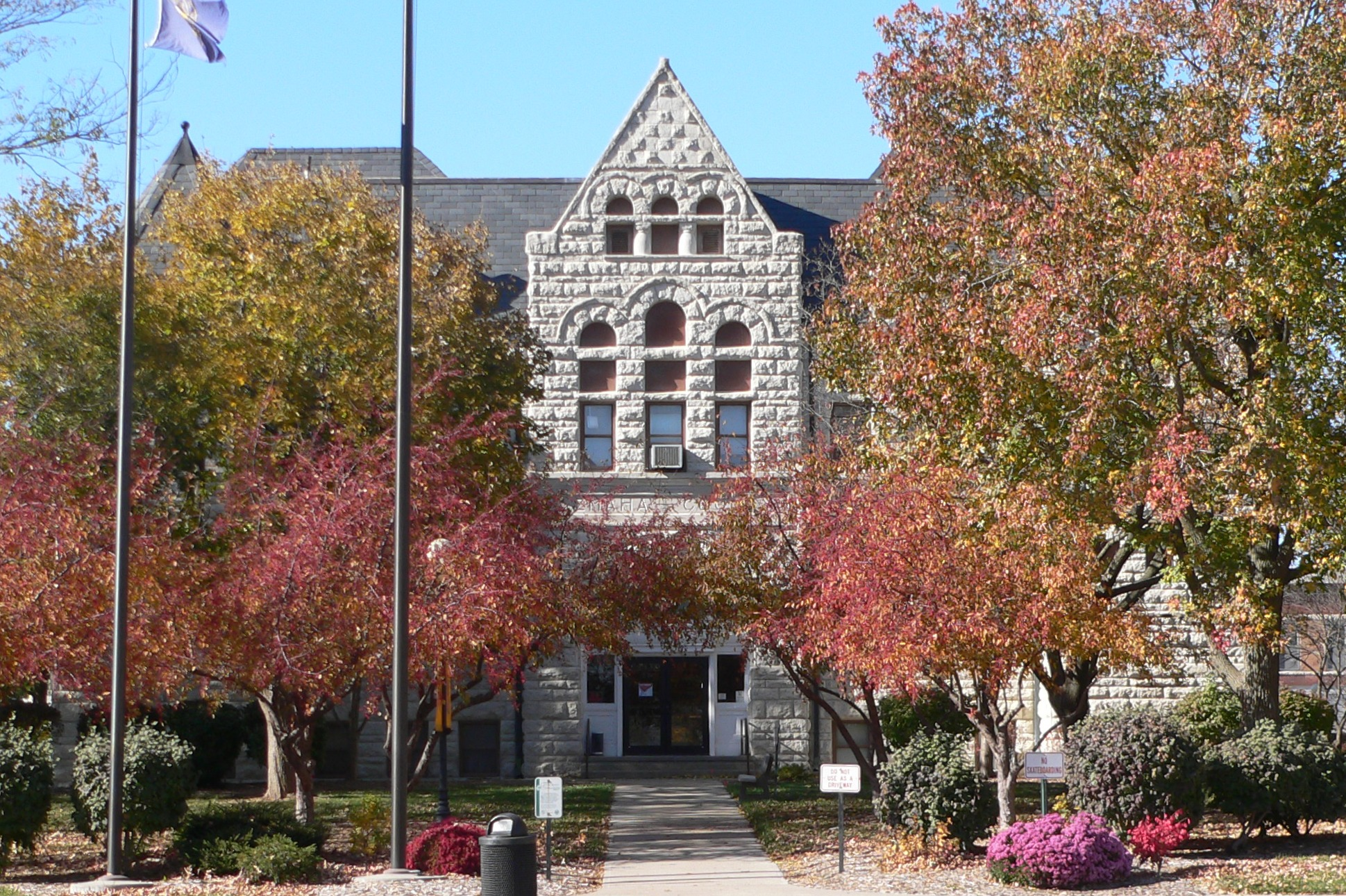 Nemaha County Courthouse in Auburn, Nebraska; seen from the east.